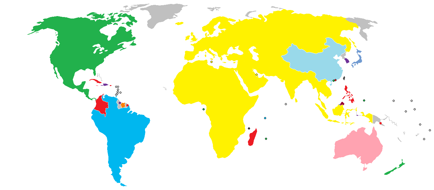 Map of Contiguous regions on Google Maps.